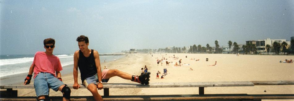 Skaters on Venice Pier, with Venice Beach park and town beyond — view to north.